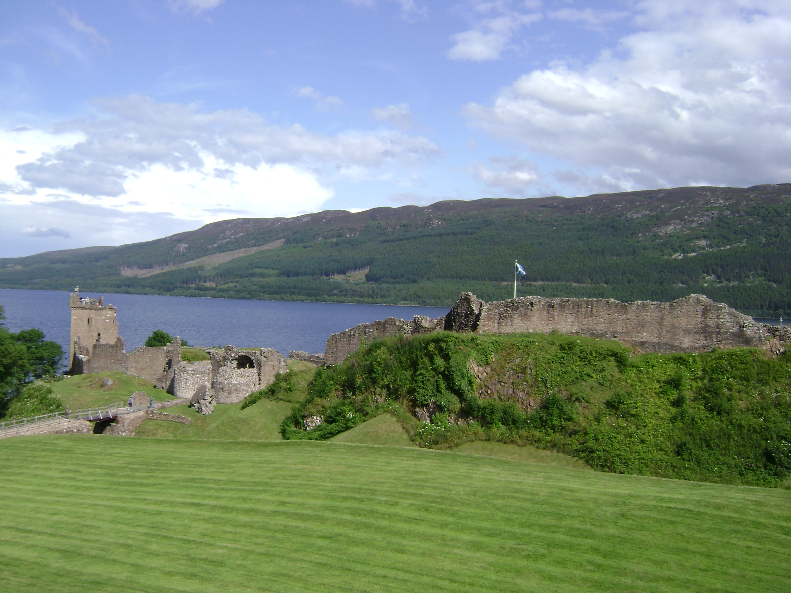 Urquhart Castle